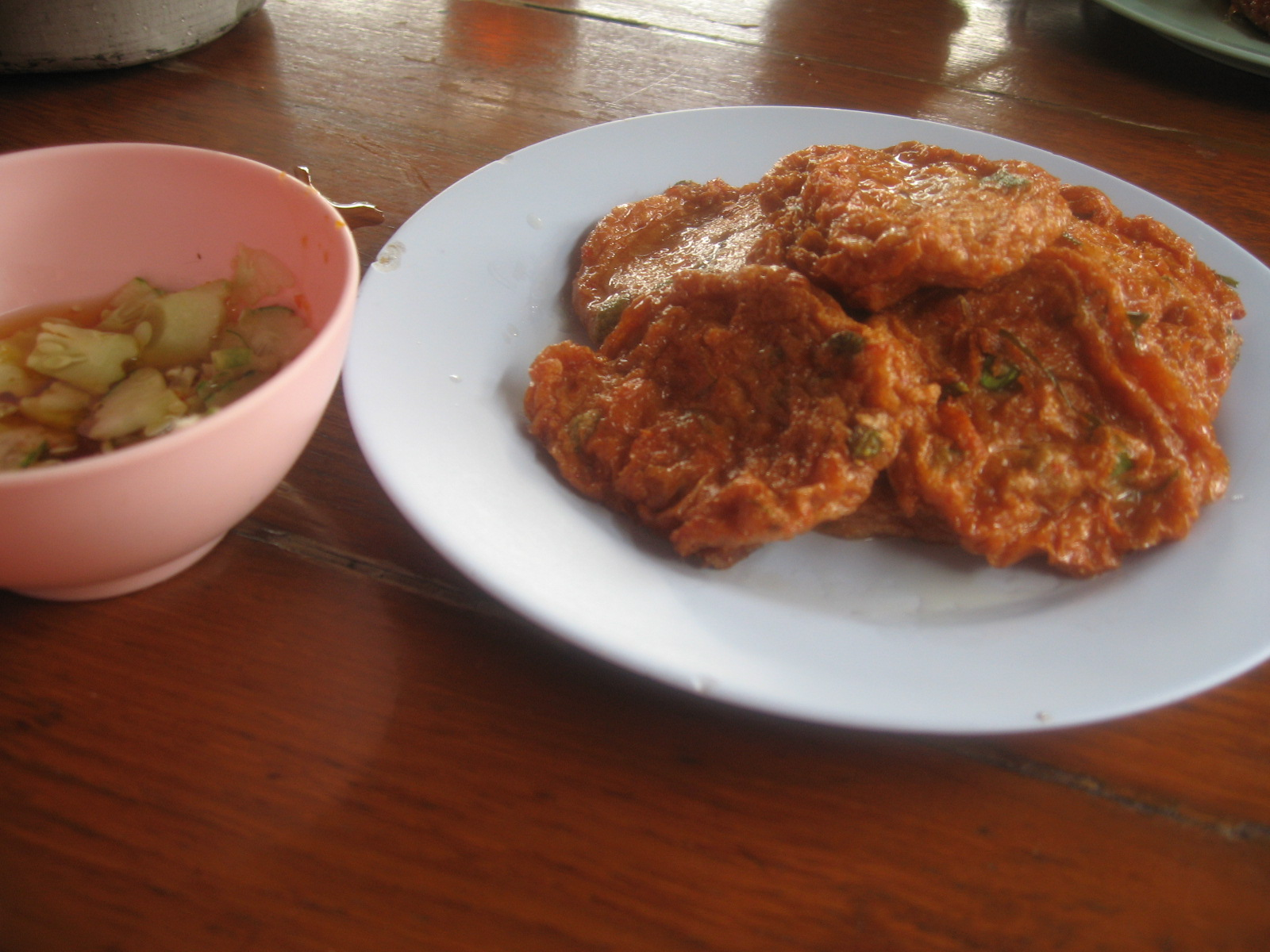 Thai fish cake.